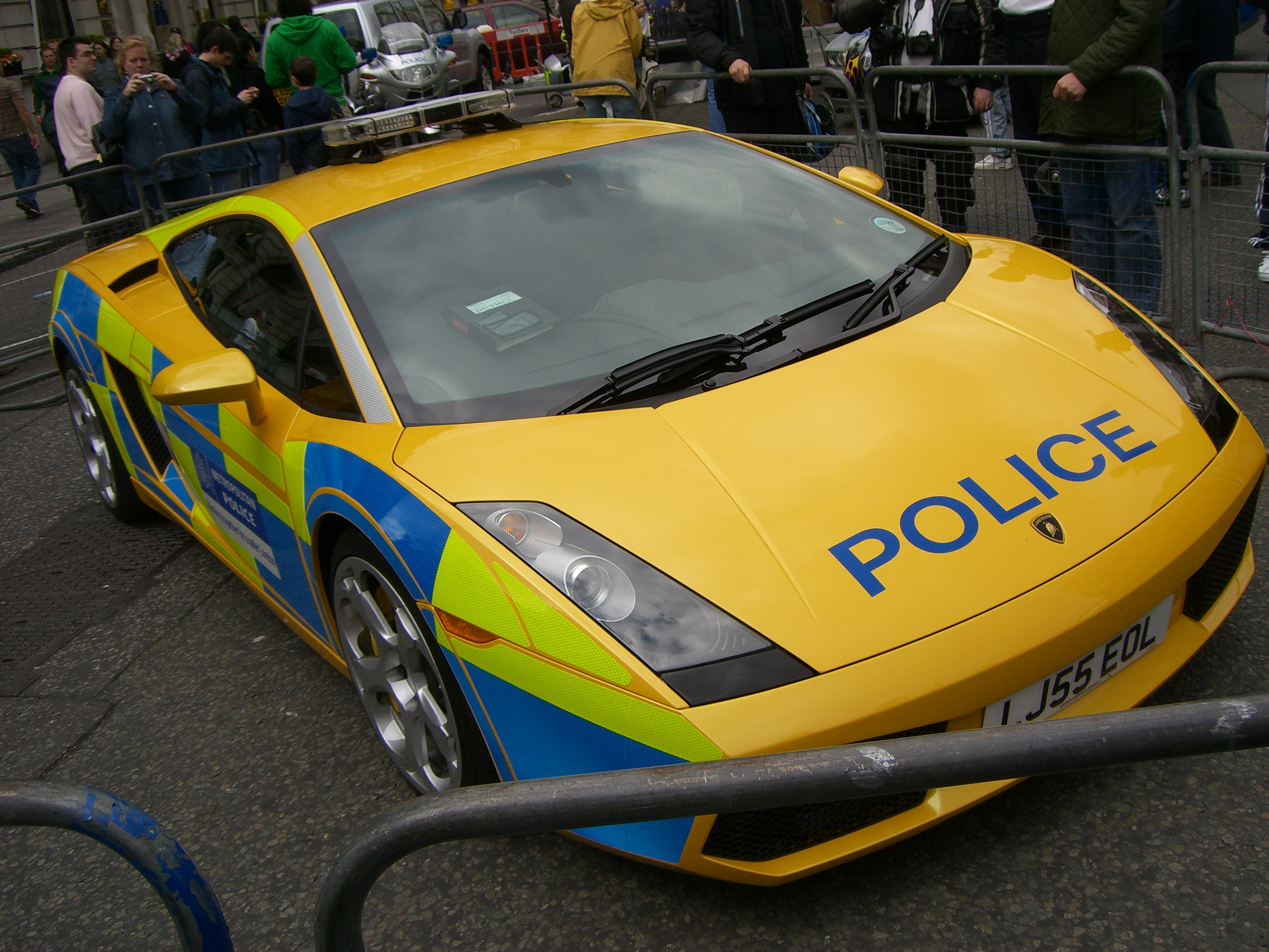 Lamborghini Gallardo Metropolitan Police next to the start of Gumball 3000 in Pall Mall, London. Details from the DVLA website, for LJ55 EOL are: - Date of Liability: 27 08 2008 Date of First Registration: 11 11 2005 Year of Manufacture: 2005 Cylinder Capacity (cc): 4961CC CO2 Emissions: 450g/Km Fuel Type: Petrol Vehicle Status: Unlicensed Vehicle Colour: YELLOW Vehicle Type Approval: M1 Vehicle Excise Duty Rate for vehicle 6 Months Rate £115.50 / 12 Months Rate £210.00